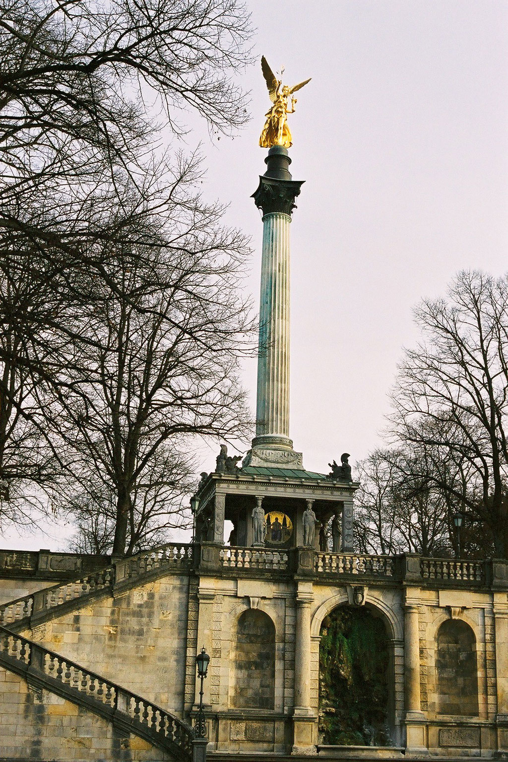 Friedensengel (Angel of Peace), Munich Total view of fountain, pillar and statue